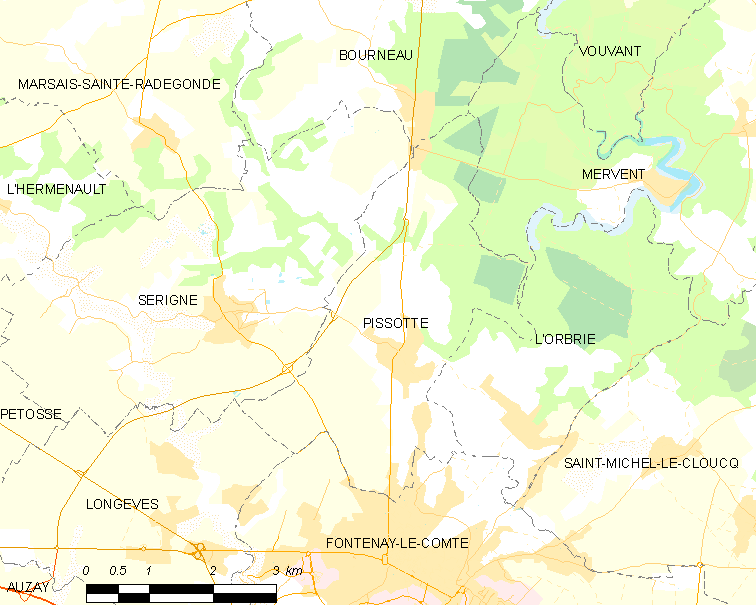 Map of French municipality Pissotte